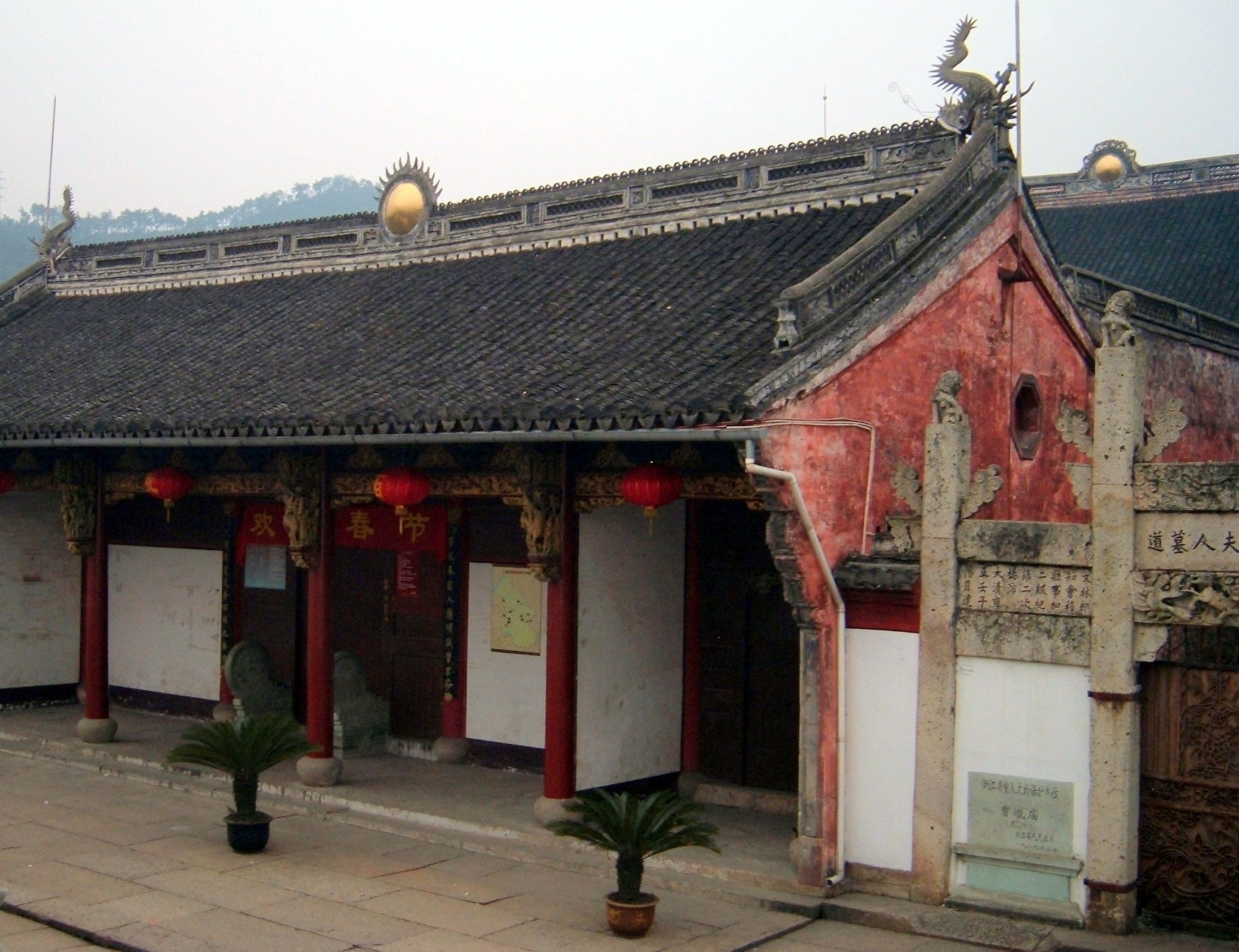 This picture shows the front of the temple, which faces east, toward the river